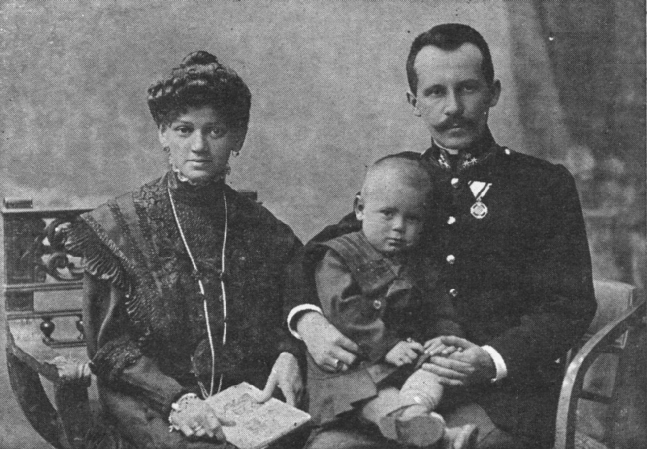 Emilia and Karol Wojtyła, parents of pope John Paul II with their elder son, Edmund